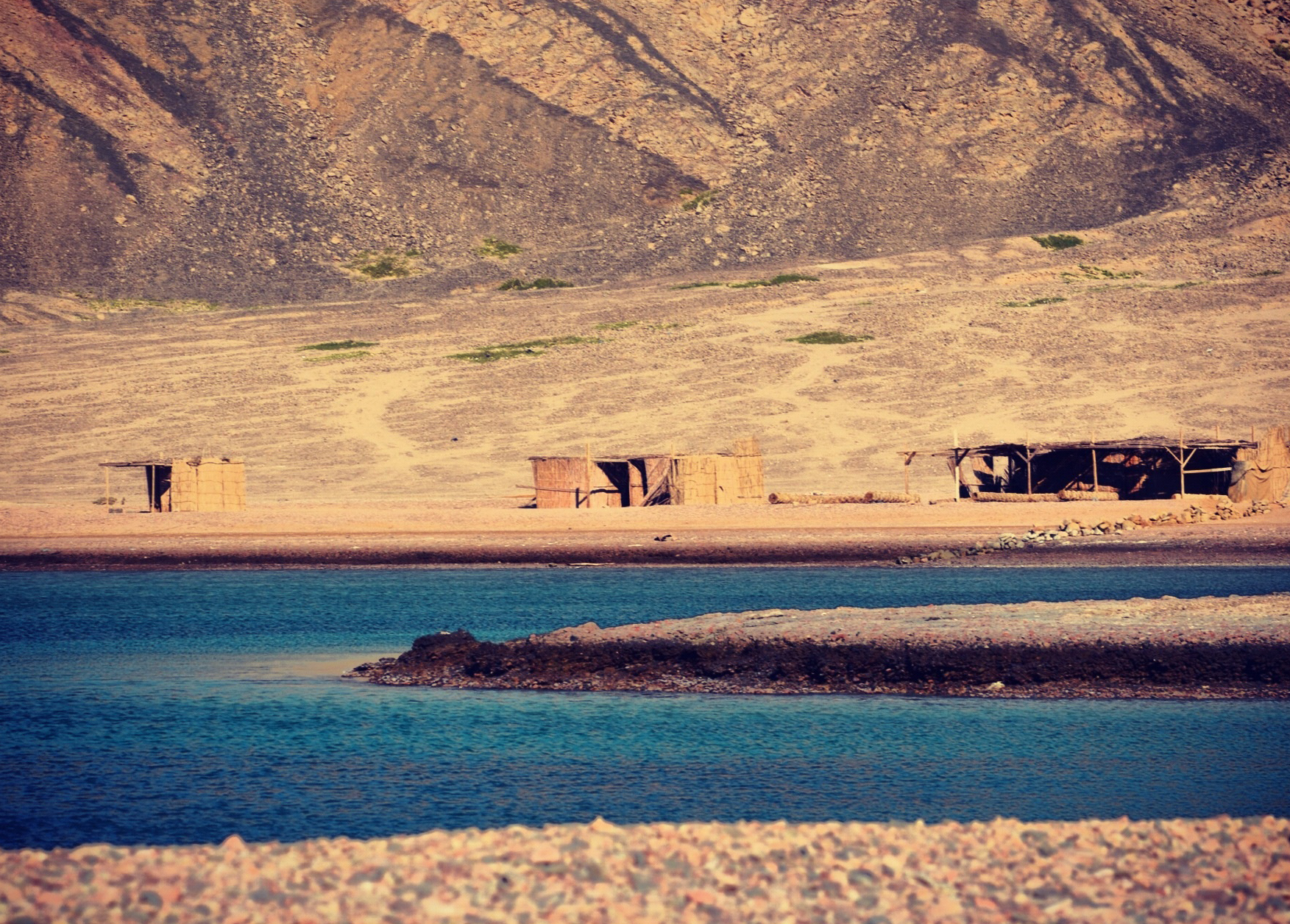 Blue Lagoon, Dahab, Egypt